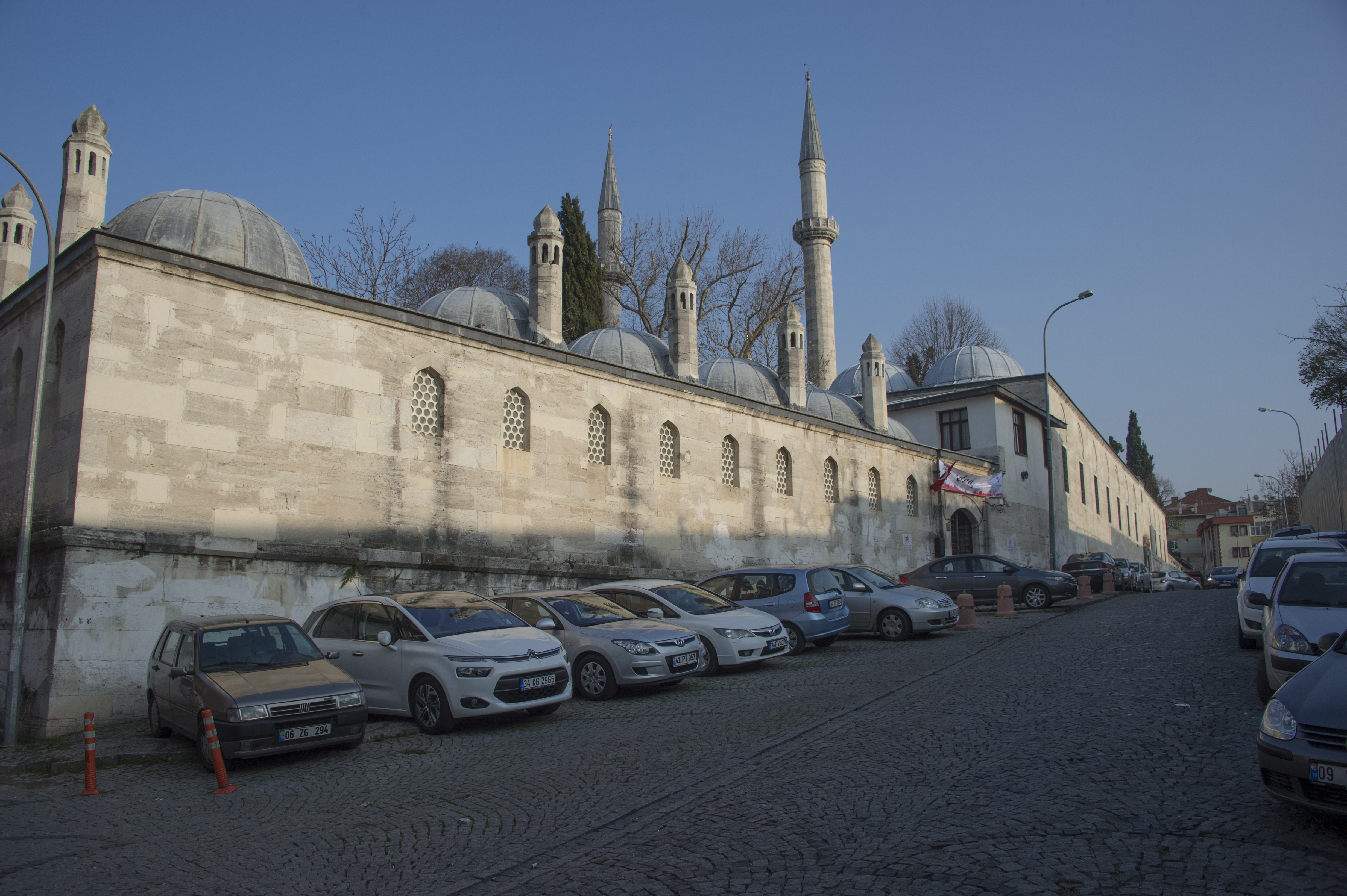 It is quite a climb towards the complex that itself seems to sit on the top of a hill, on a platform that can be reached via several stairs from all side